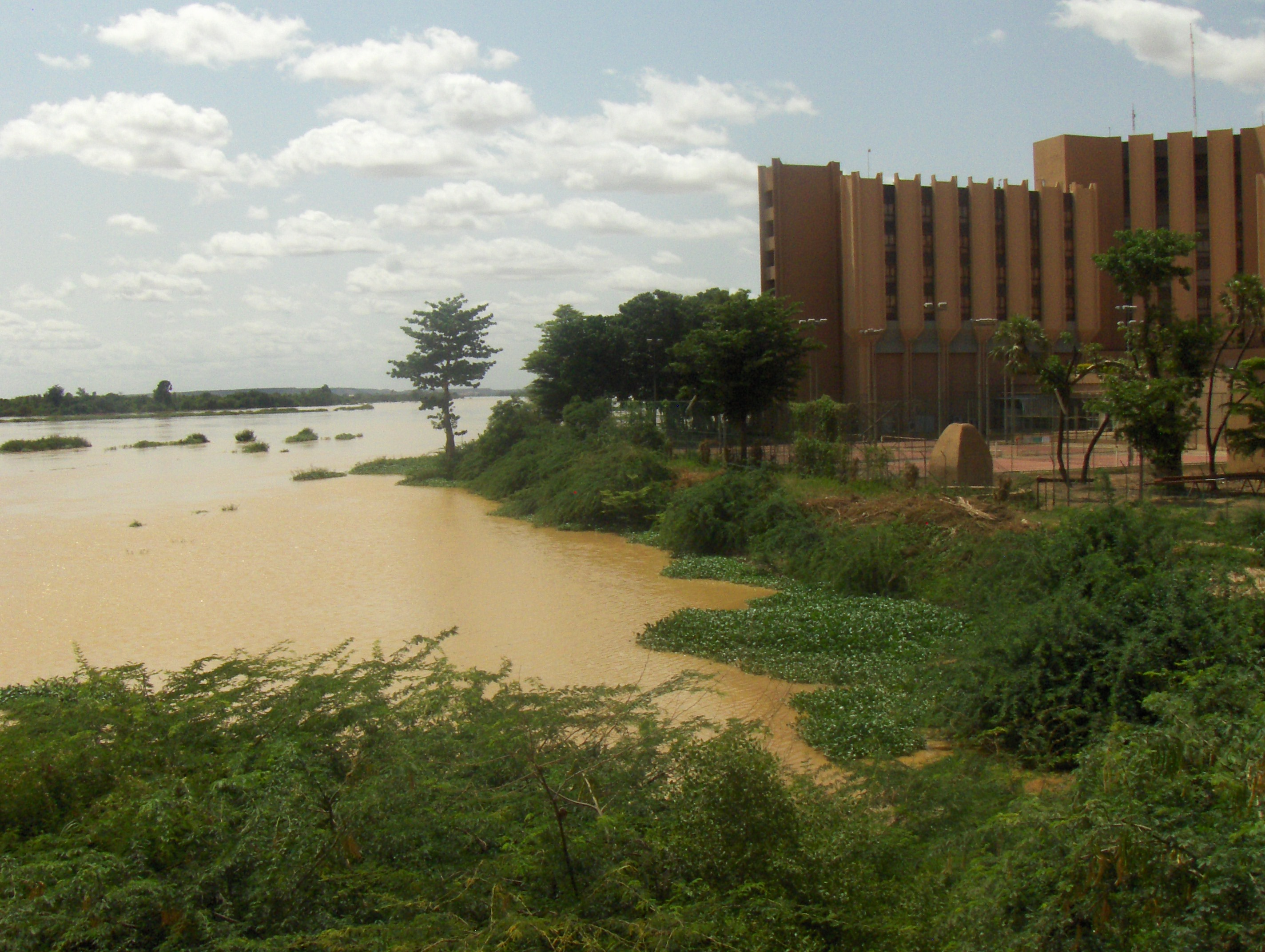 Hôtel Gaweye at Niger River in Niamey. photo : Abdelsalam Soumaïla (collaboration spéciale)